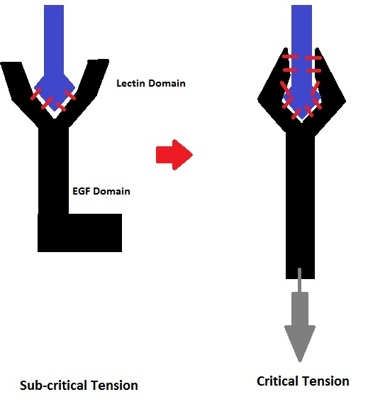 Under applied tension, the EGF domain of selectin adopts an extended conformation which induces a conformational change to the lectin (binding) domain. This conformational change results in greater affinity for the ligand, effectively locking it in place despite the applied tension.